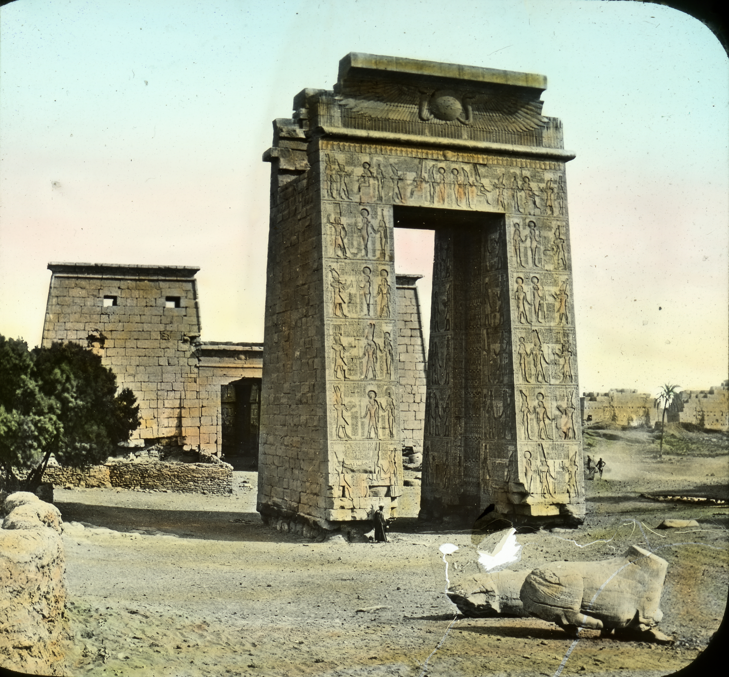 View 02: Egypt - Karnak. Gate and Pylon., n.d., T. H. McAllister, Manufacturing Optician. 49 Nassau Street, New York. A Thousand Miles up the Nile. G.W.W. Brooklyn Museum Archives (S10.08 Karnak, image 9922).